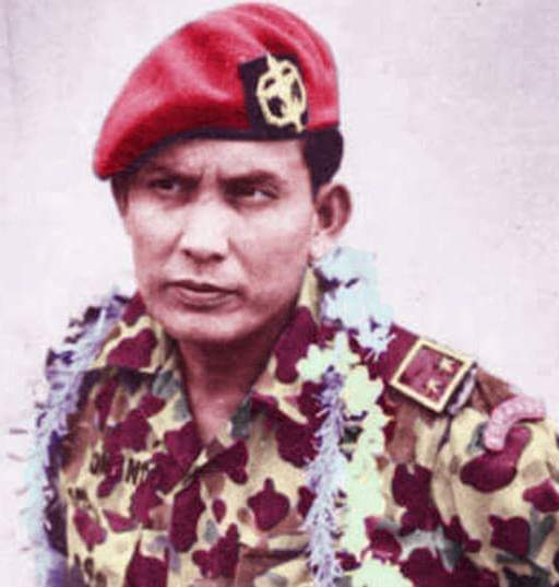 First Commander of Kopassus